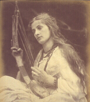 O hark, 0 hear... (The Princess) (1875 ?) albumen print 34.4 x 28.3 cm.